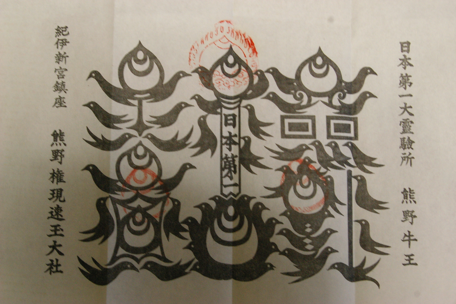 Kumano-Goouhu.